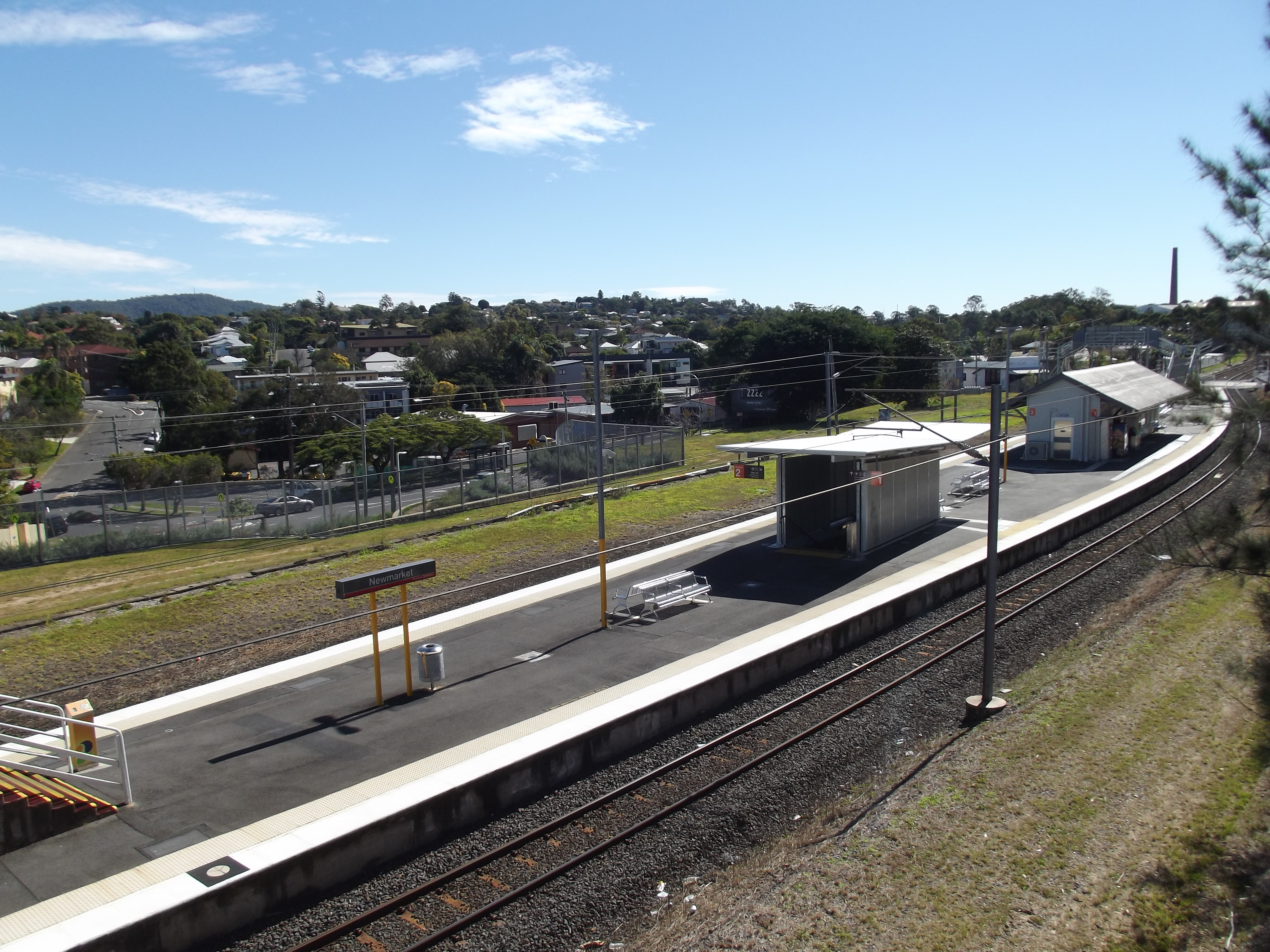 A photo of the Newmarket railway station, on the Ferny Grove line.